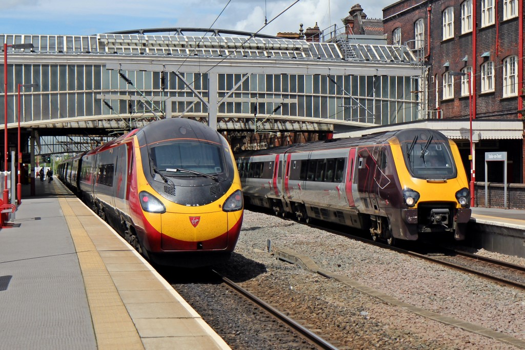 Pendolino and Voyager, Stoke-on-Trent railway station